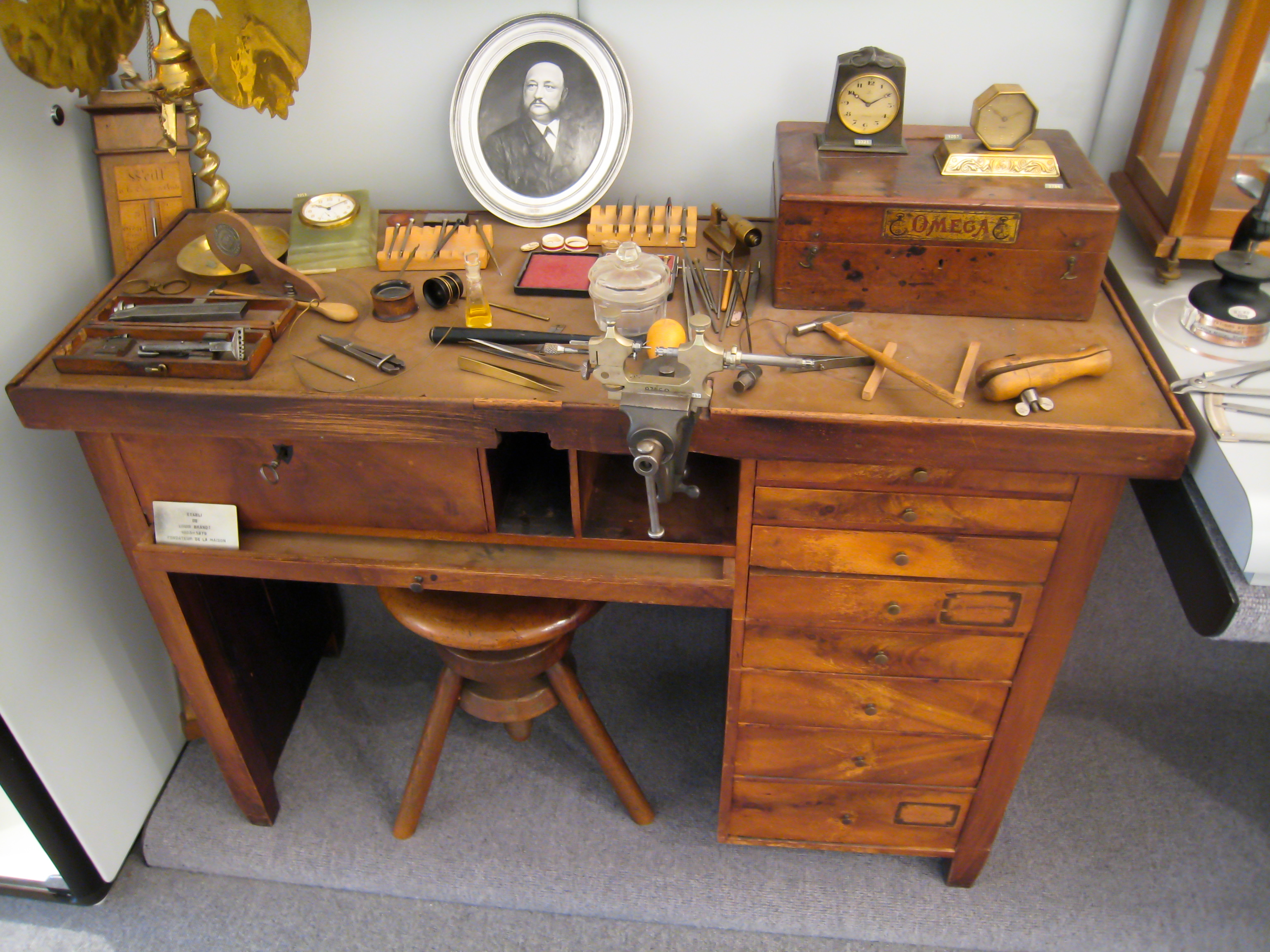 The original workspace of Louis Brandt, founder of watchmaker Omega SA. Omega Uhrenmuseum Biel/Bienne, Switzerland.